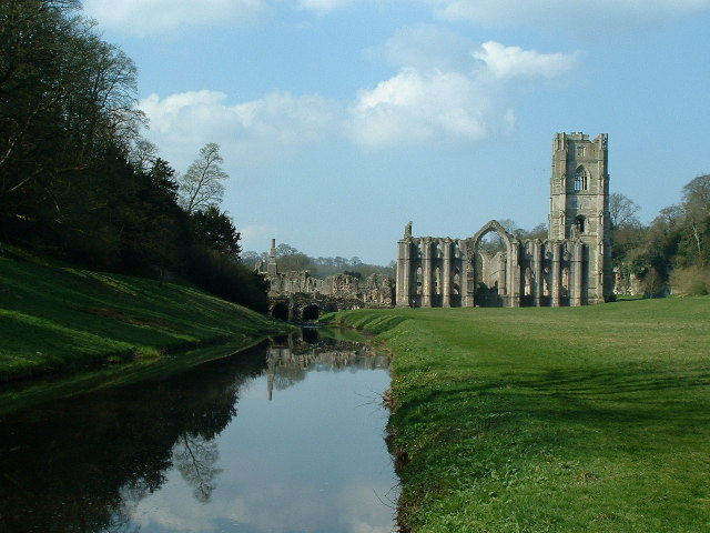 Fountains Abbey. A Ruined Cistercian Abbey on the River Skell